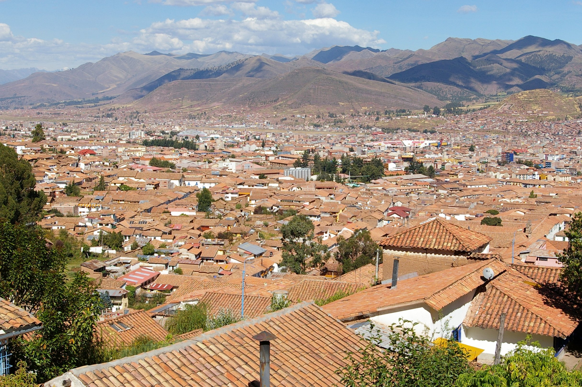 Cusco, Peru - home to approximately 300,000 people